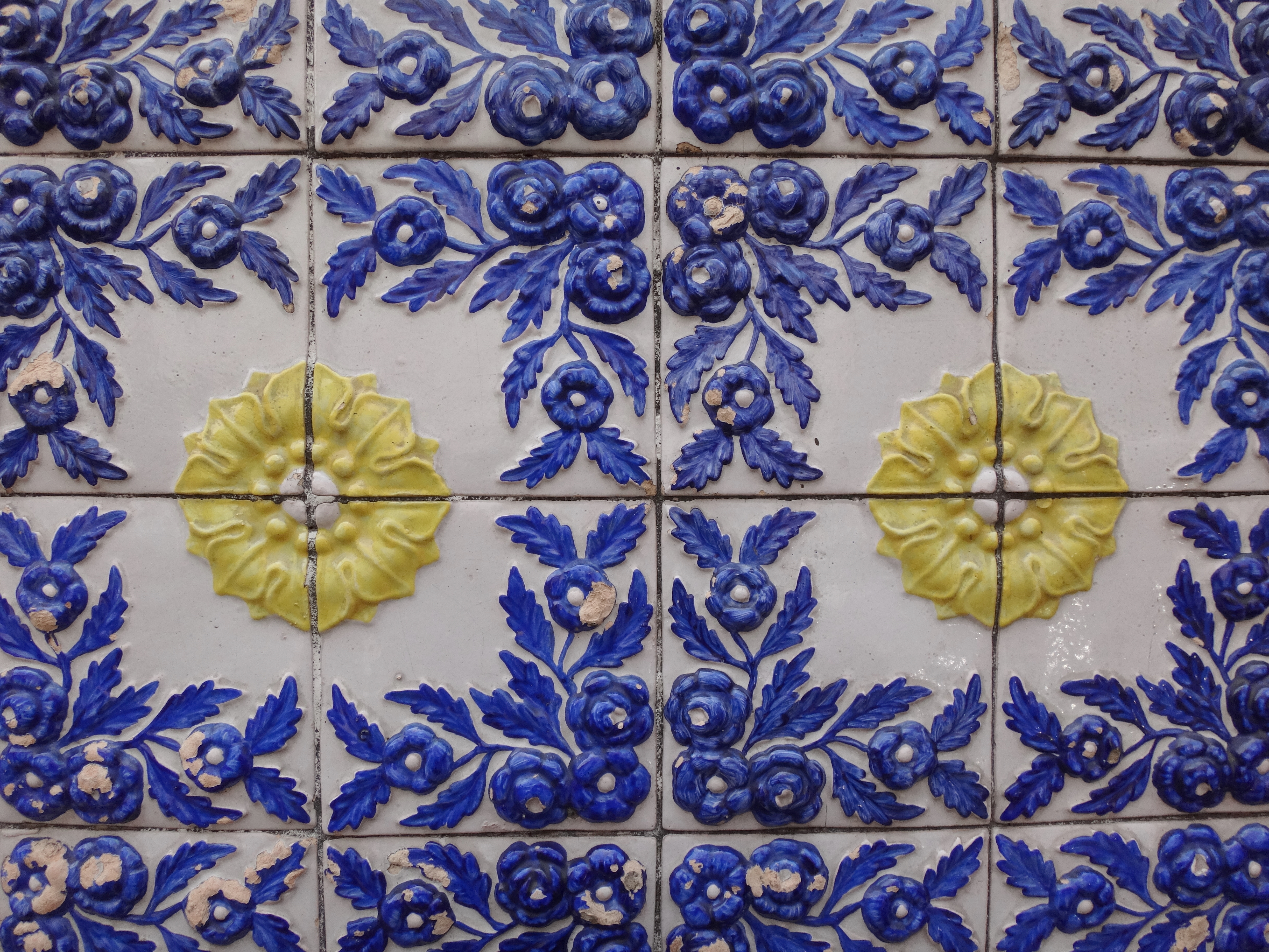 Tiles (azulejos) on the facade of the Casa da Frontaria Azulejada in the city of Santos, Brazil